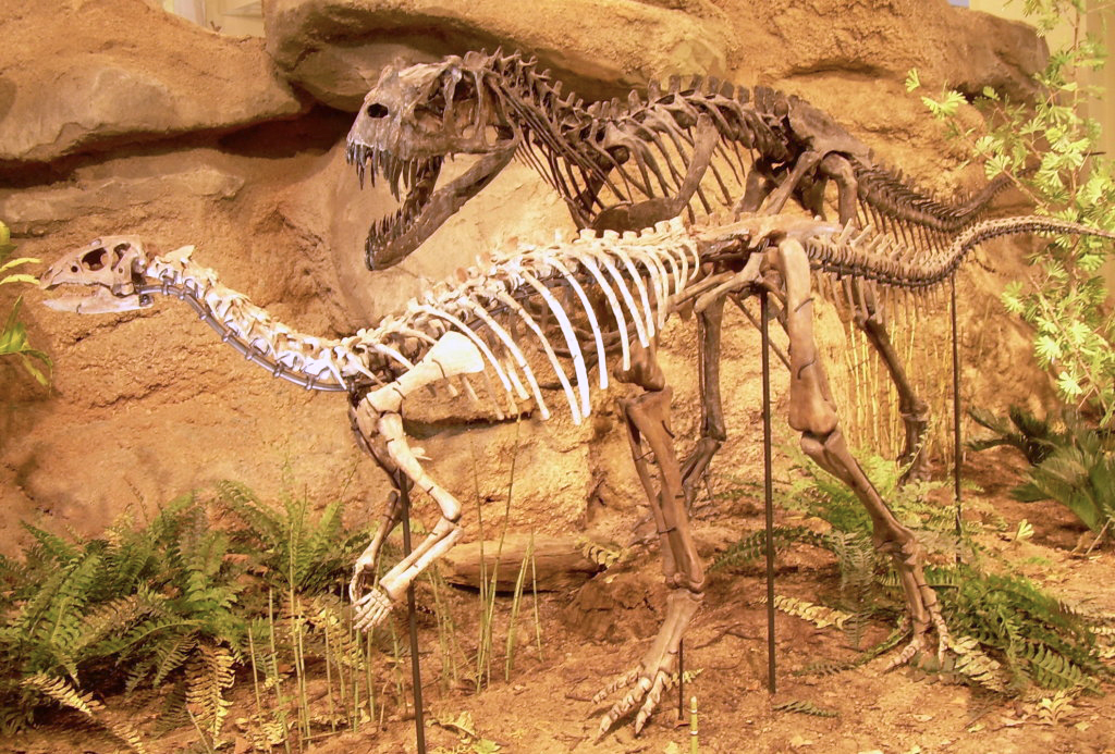 Dryosaurus elderae (holotype, formerly assigned to D. altus) mounted as if being pursued by a Ceratosaurus nasicornis (a cast), a new exhibit in Carnegie Museum's refurbished Dinosaur Hall.